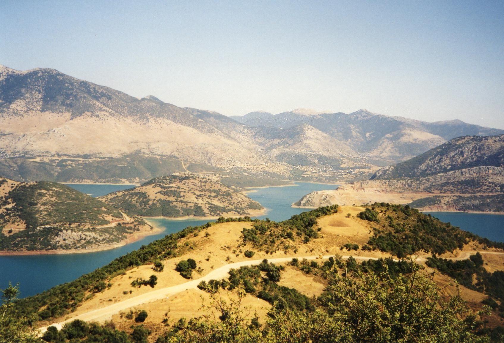 The reservoir of the Mornos river, Central Greece. Seen from the north-west; with the town of Lidoriki and the southern extensions of the mountain Giona in the background.